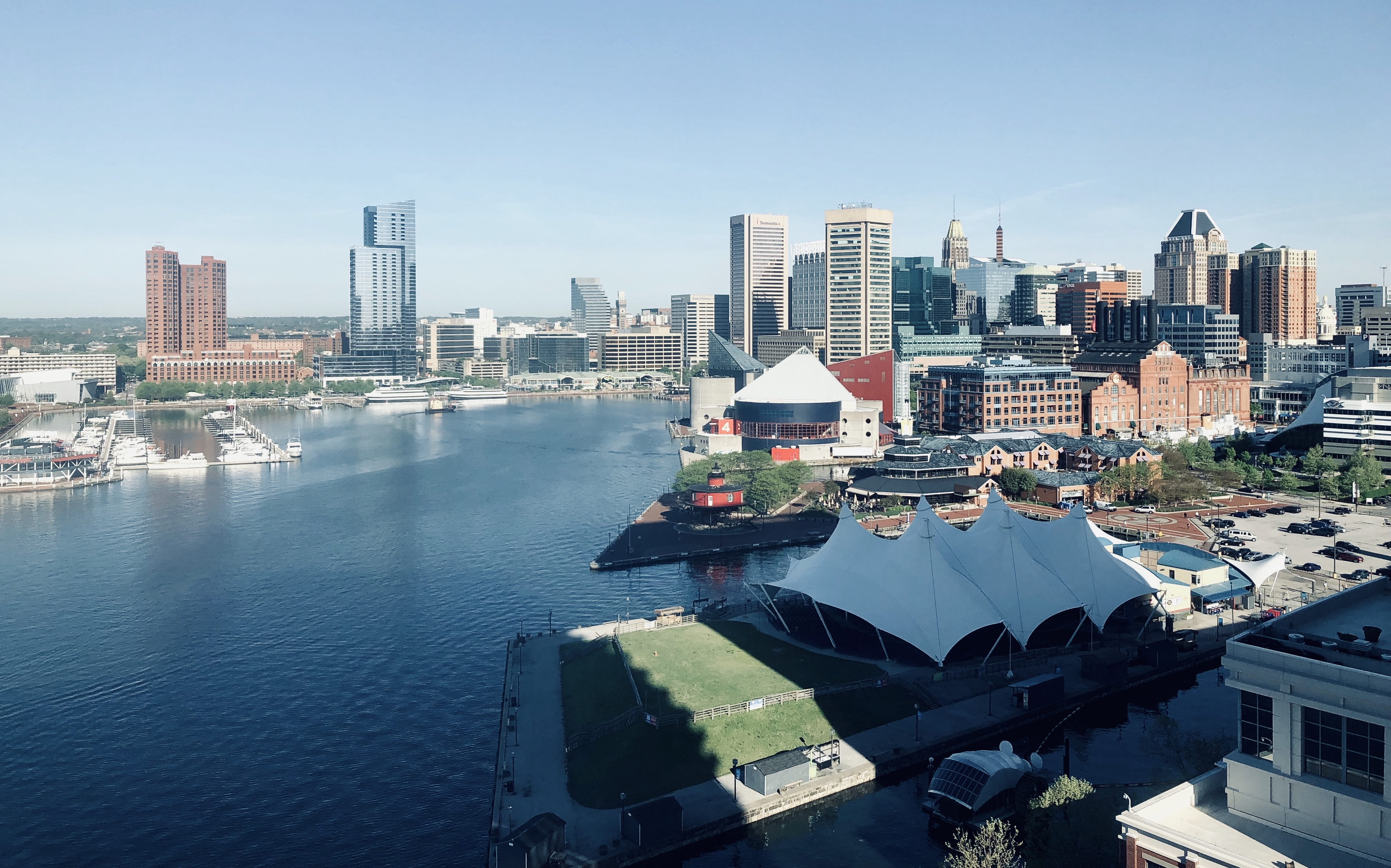 Aerial view of the entire Inner Harbor, Baltimore, August 2020. Photo by Chris6d